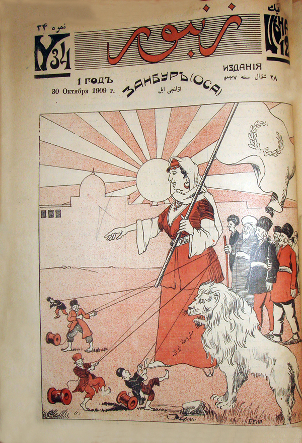 «Зенбур» («Wasp»), Azerbaijani satirical magazine 1909, October 30 (#34)